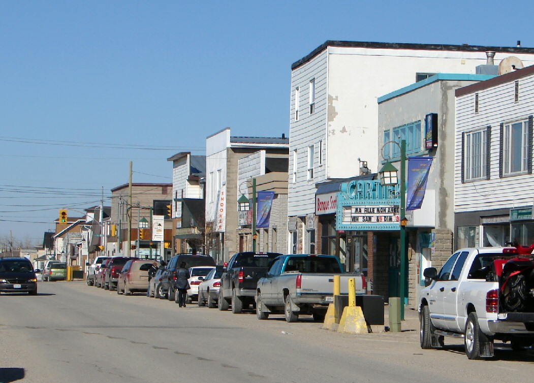 Centre of Hearst, Ontario, Canada